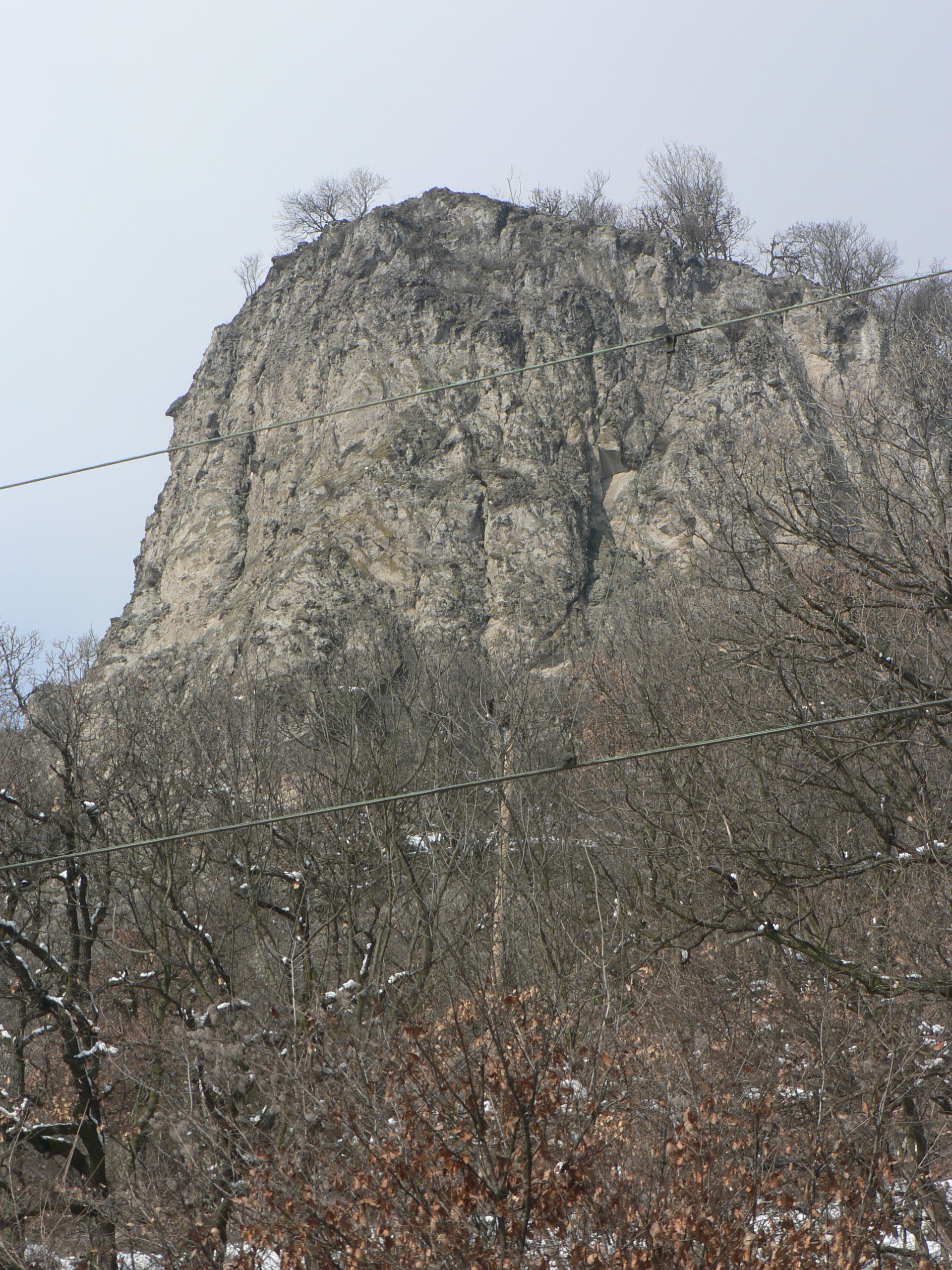 Burda Mountains